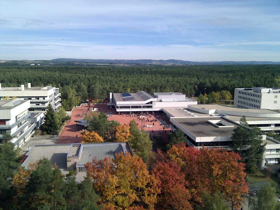 Friedrich-Alexander-Universität_Erlangen-Nürnberg Faculty of Engineering campus